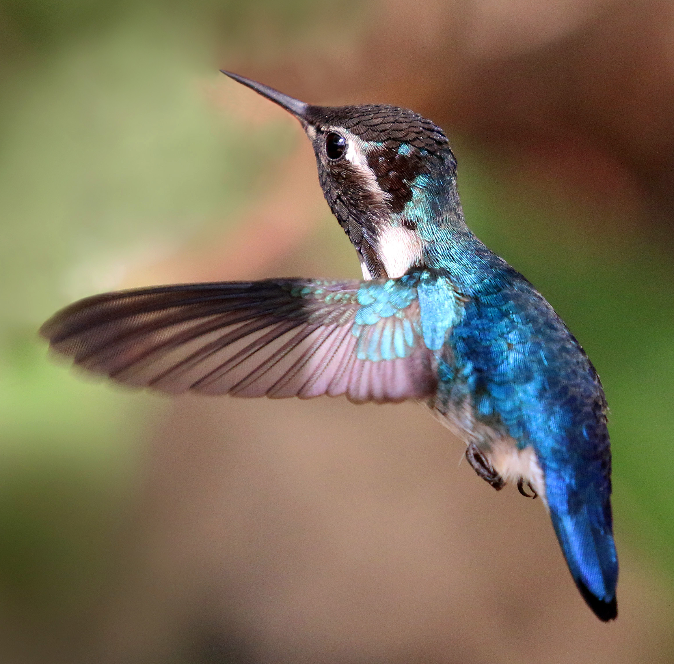 Adult male Bee hummingbird (Melisuga helenae), Cuba.